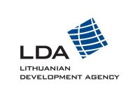 Lithuanian Development Agency Logo